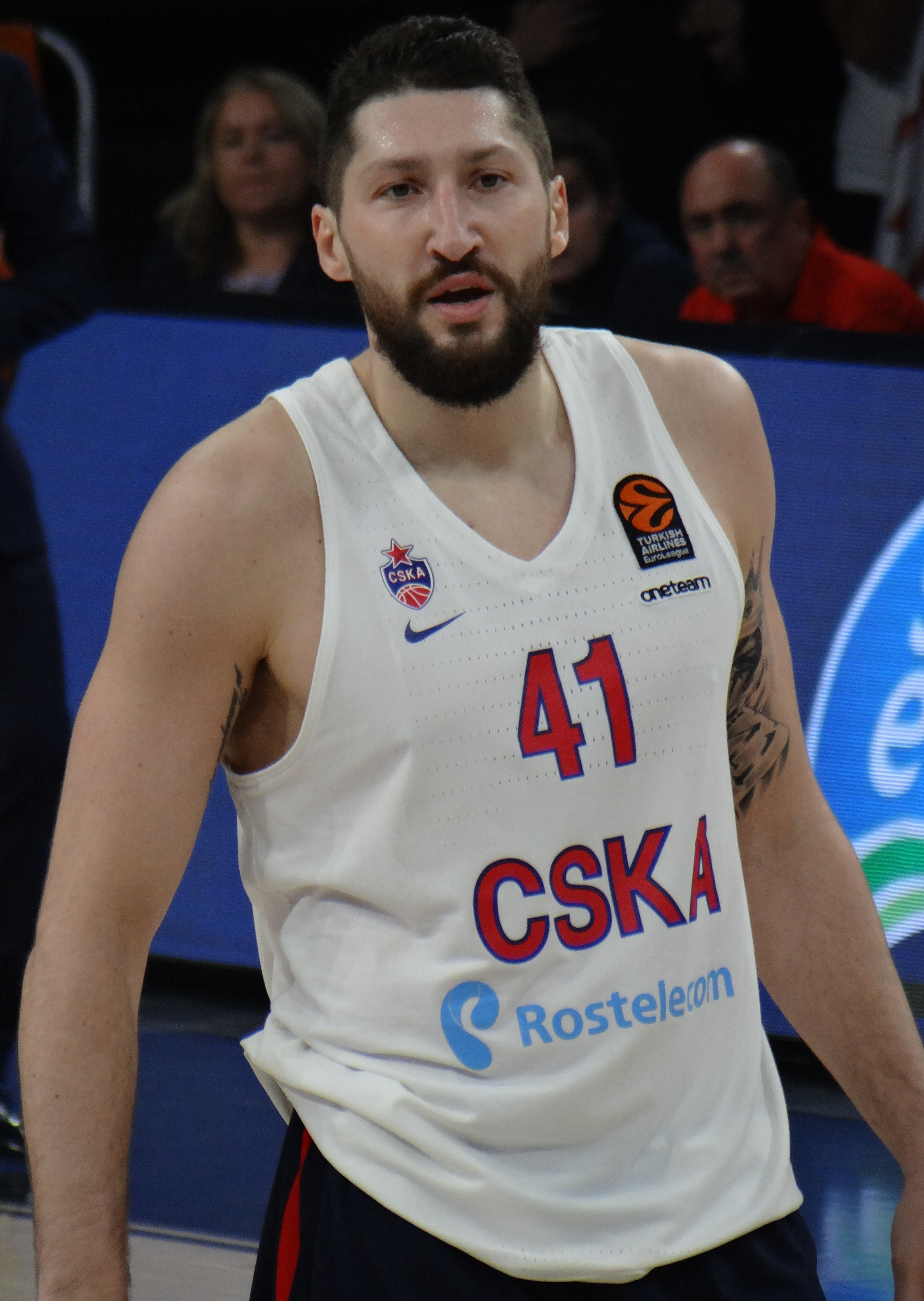 Nikita Kurbanov 41 PBC CSKA Moscow 20171027